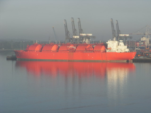 Southampton Container port.. Somewhat obscured by the laid-up 1974 built LNG carrier SS Margaret Hill. Photographed from a vessel manoeuvring on to the Mayflower Cruise Terminal. The clear water in the foreground is the "upper turning grounds" and later in the day a 109,000 grt cruise ship would be spinning round in this area.